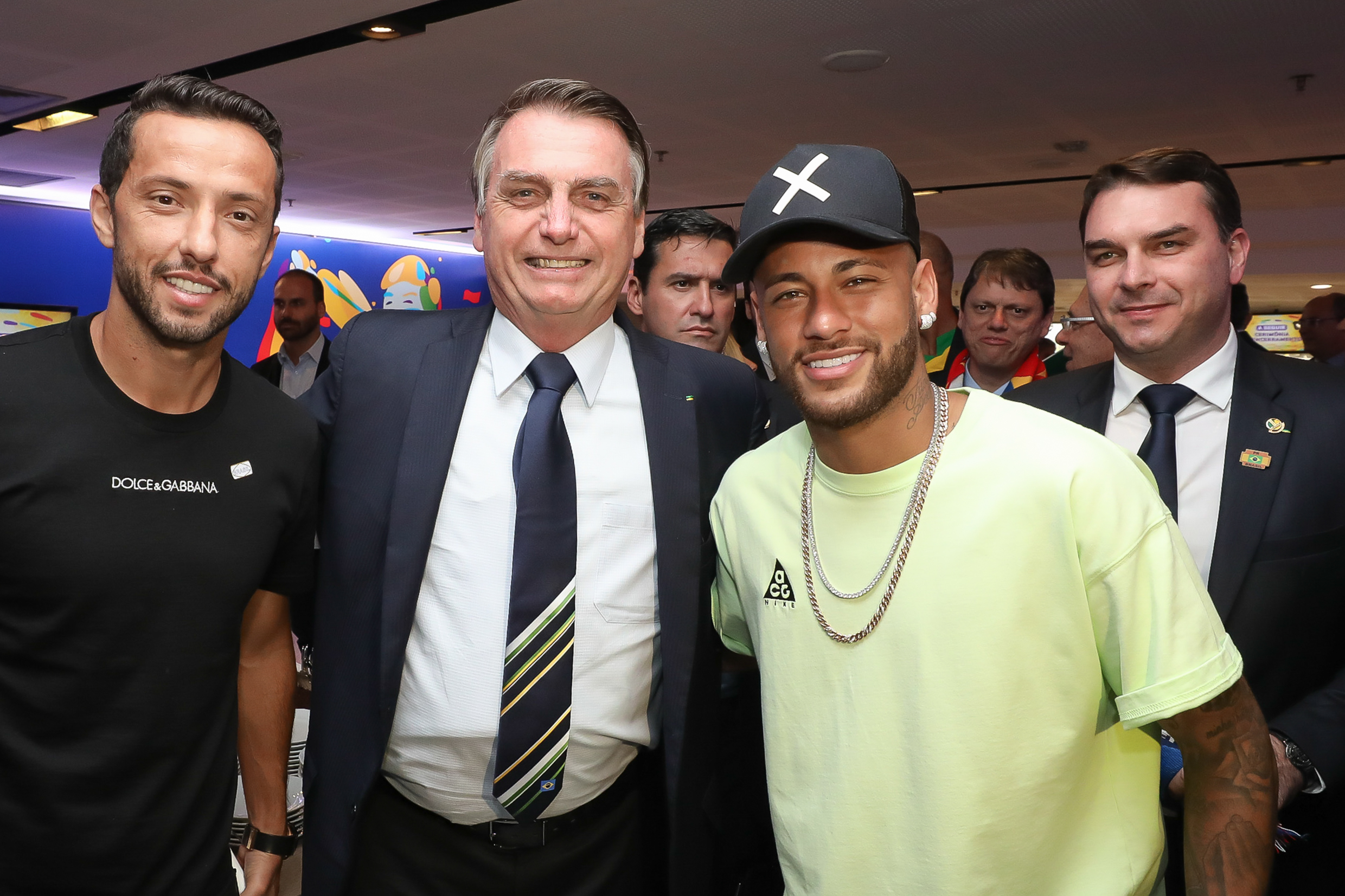 (Rio de Janeiro - RJ, 07/07/2019) Presidente da República, Jair Bolsonaro, durante a final da Copa América 2019, entre as seleções do Brasil e Peru. Foto: Clauber Cleber Caetano/PR